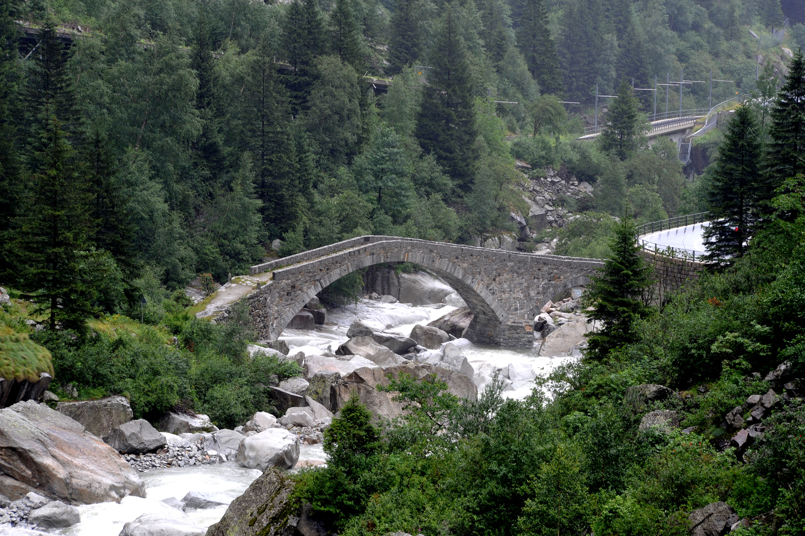 Häderli bridge in the Schöllenen canyon; Uri, Switzerland. It was part of the old mule track. Reconstruction from 1991, after destruction of the original bridge 1987 by flooding of the Reuss.